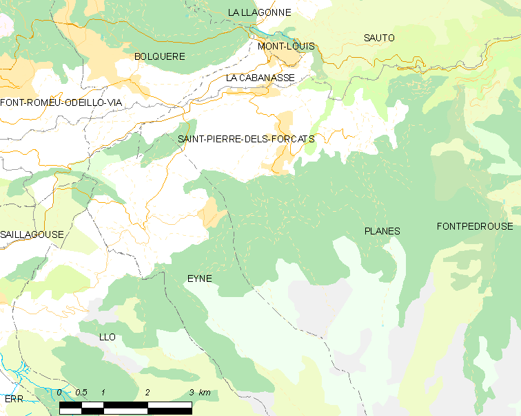 Map of French municipality